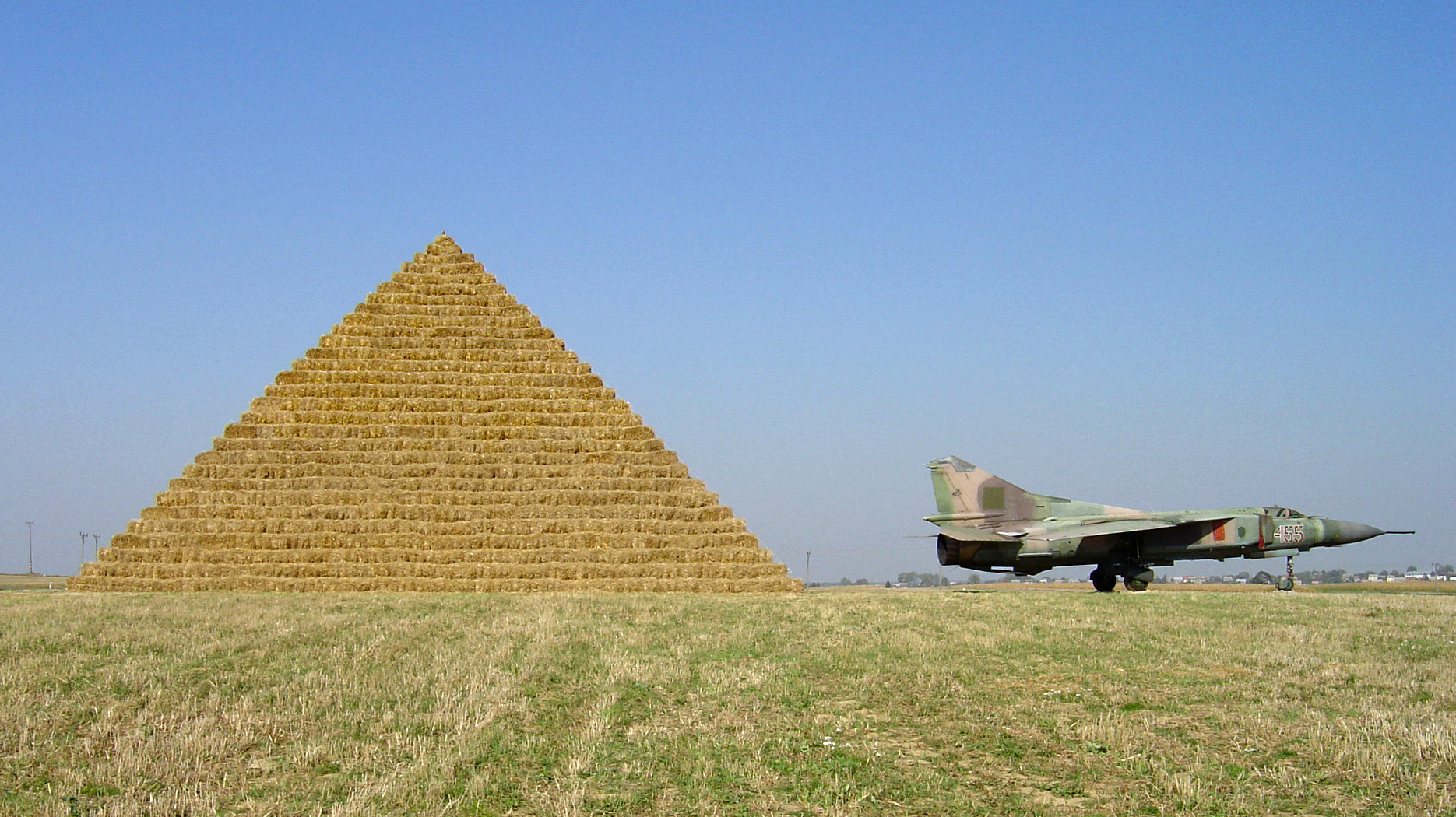 Model of Cheops' Pyramid at Giza, made from wood and bales of straw in 2003, near Sędziszów Małopolski ring road